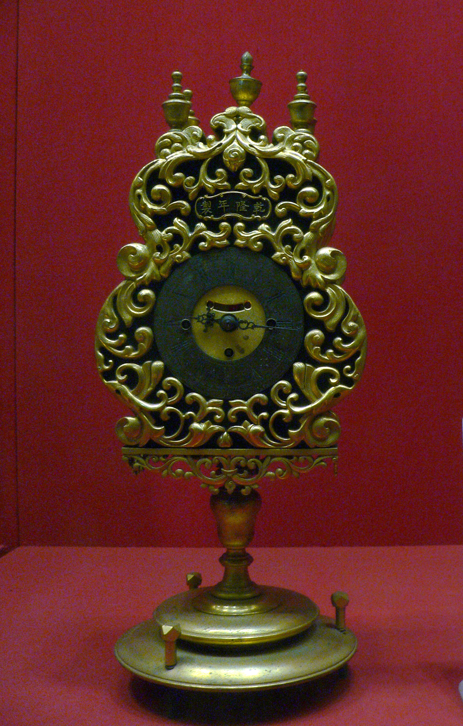 Clock with a copper hatstand，Made in Impiral Workshops，Qianlong period（1736-1795），Qing Dynasty